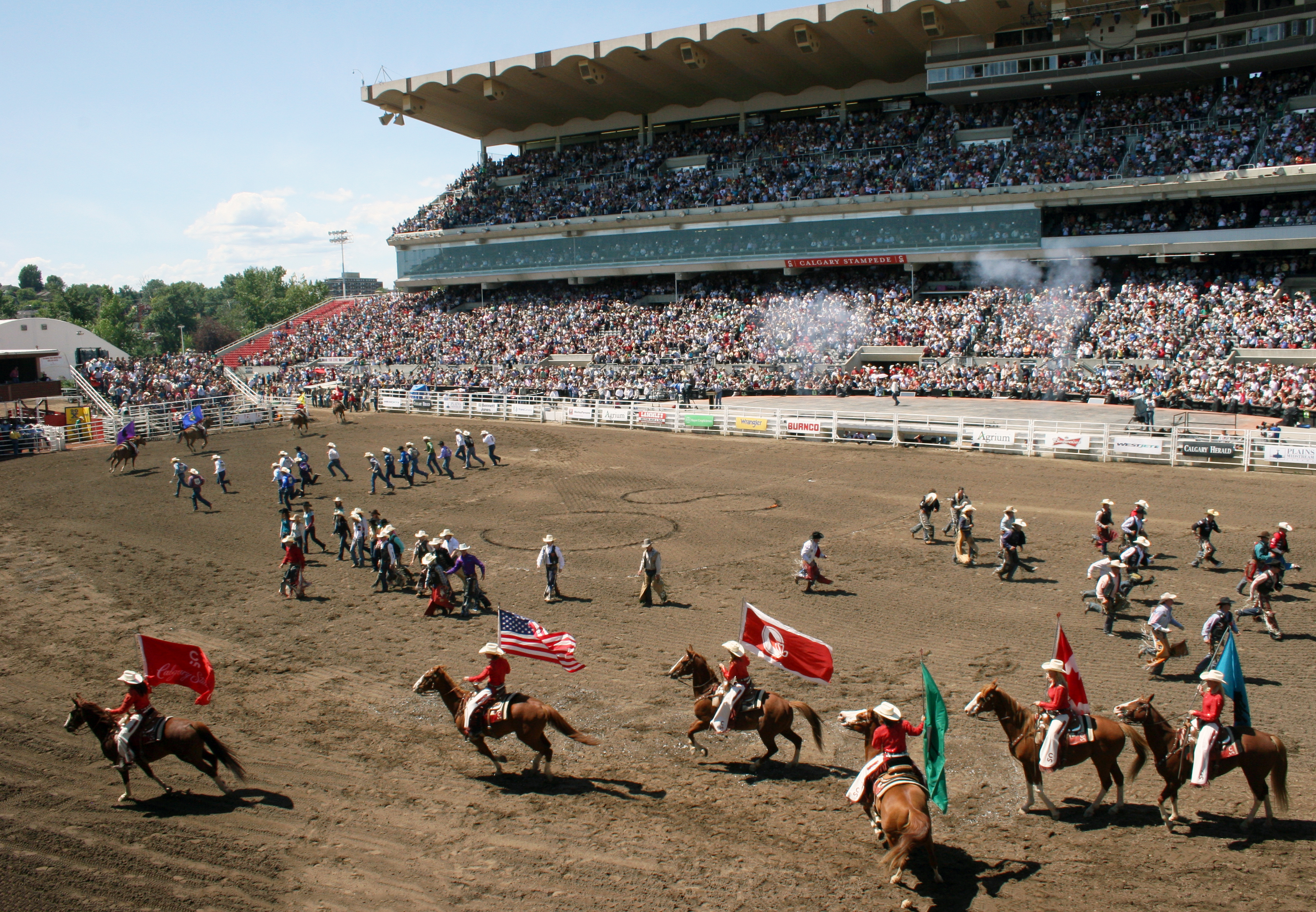 Calgary Stampede: Finalists on the final day of rodeo.